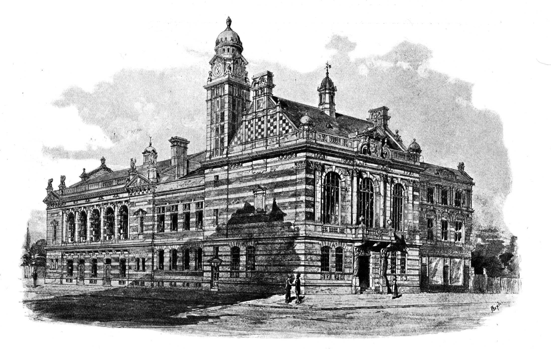 Accepted design for Rotherhithe Town Hall, View from Neptune Street and Lower Road, Murray and Foster, Architects